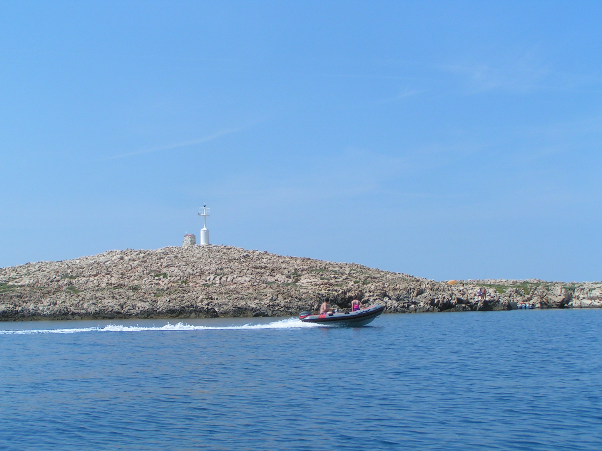 View from the sea to the islet of Ražanac Veli.